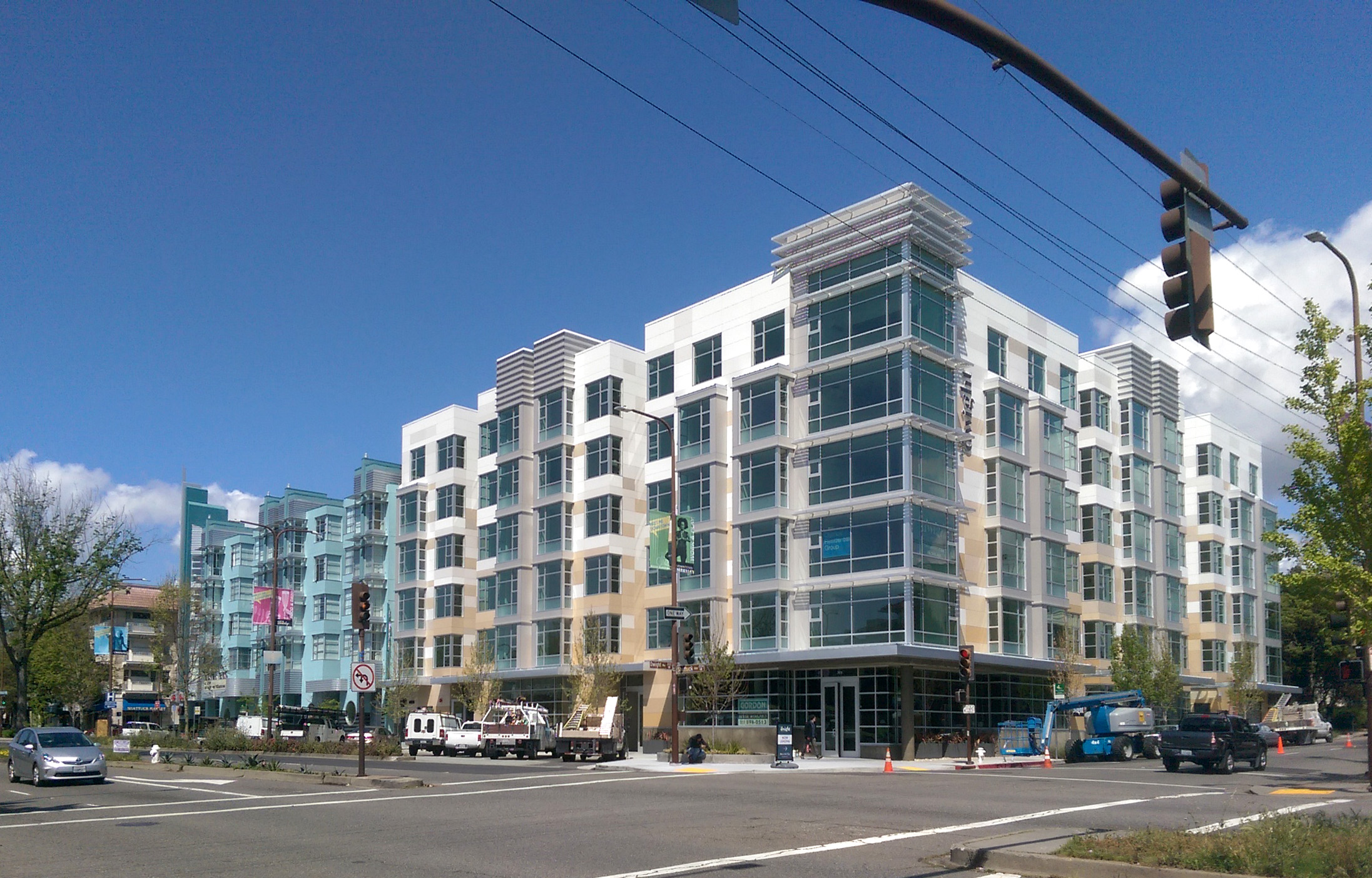 Berkeley, California - downtown - mixed use buildings on Shattuck Ave between Haste and Dwight